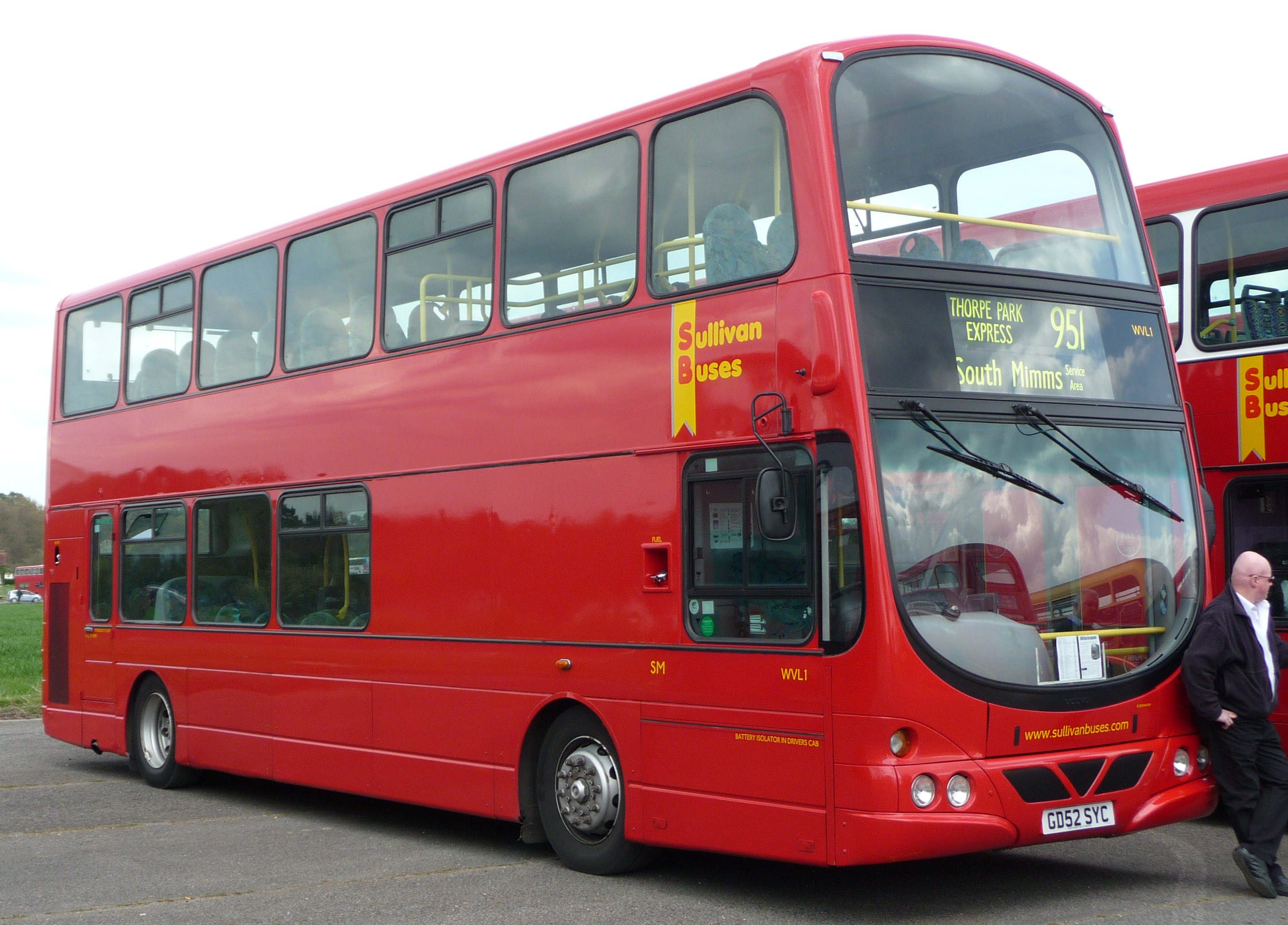 Sullivan Buses' WVL1 (GD52 SYC), a Volvo B7TL/Wright Eclipse Gemini, at the 2009 Cobham bus rally at Wisley Airfield.